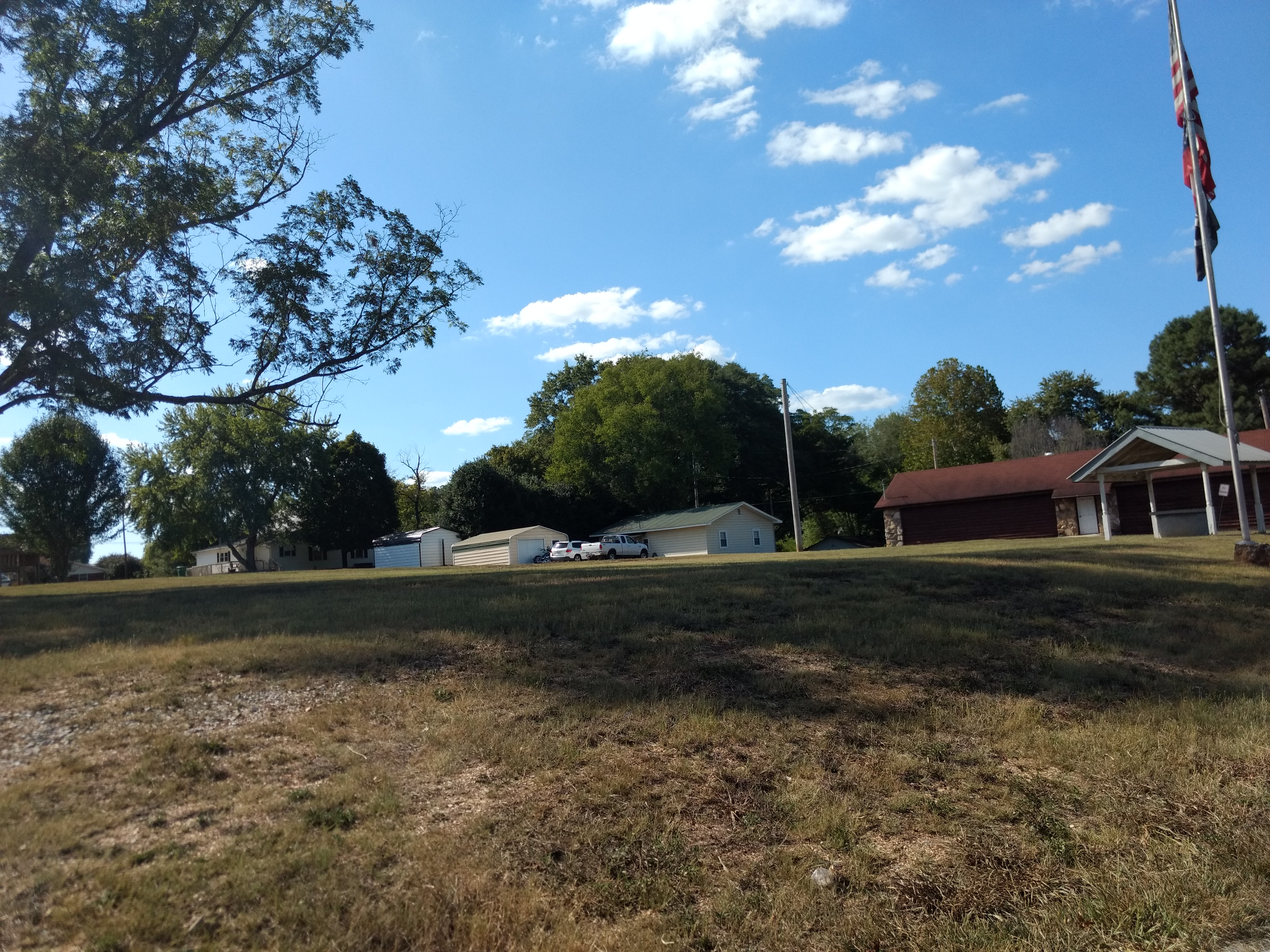 A photo taken Sept. 21, 2019 depicting where the William Taylor House once stood.